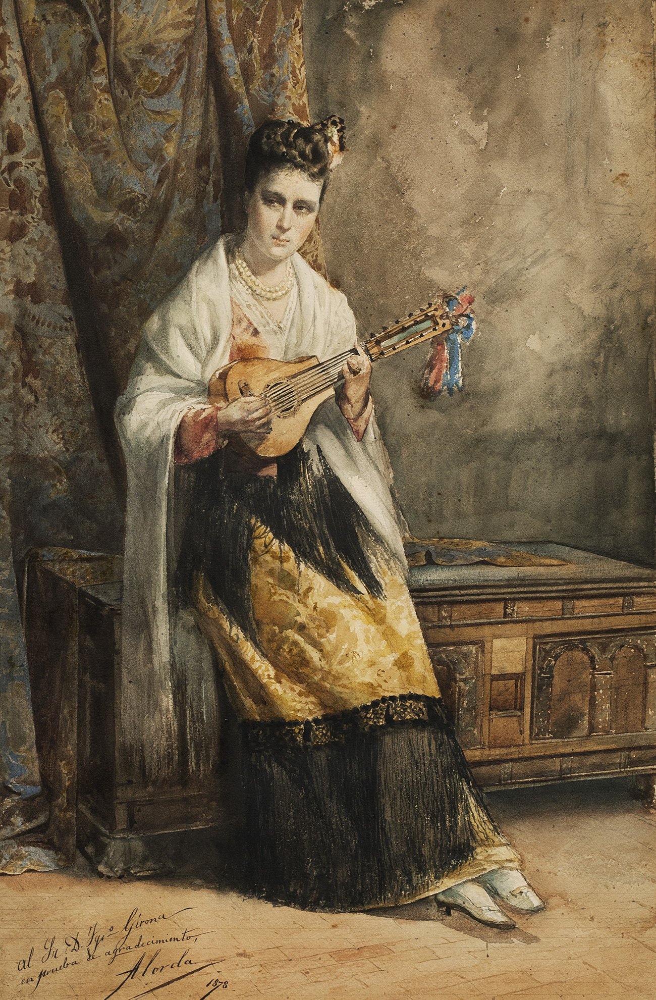 1878 - Woman with bandurria. The square-shouldered bandurria was a distinct shape of Spanish bandurrias of the 18th century (1700s).[1]